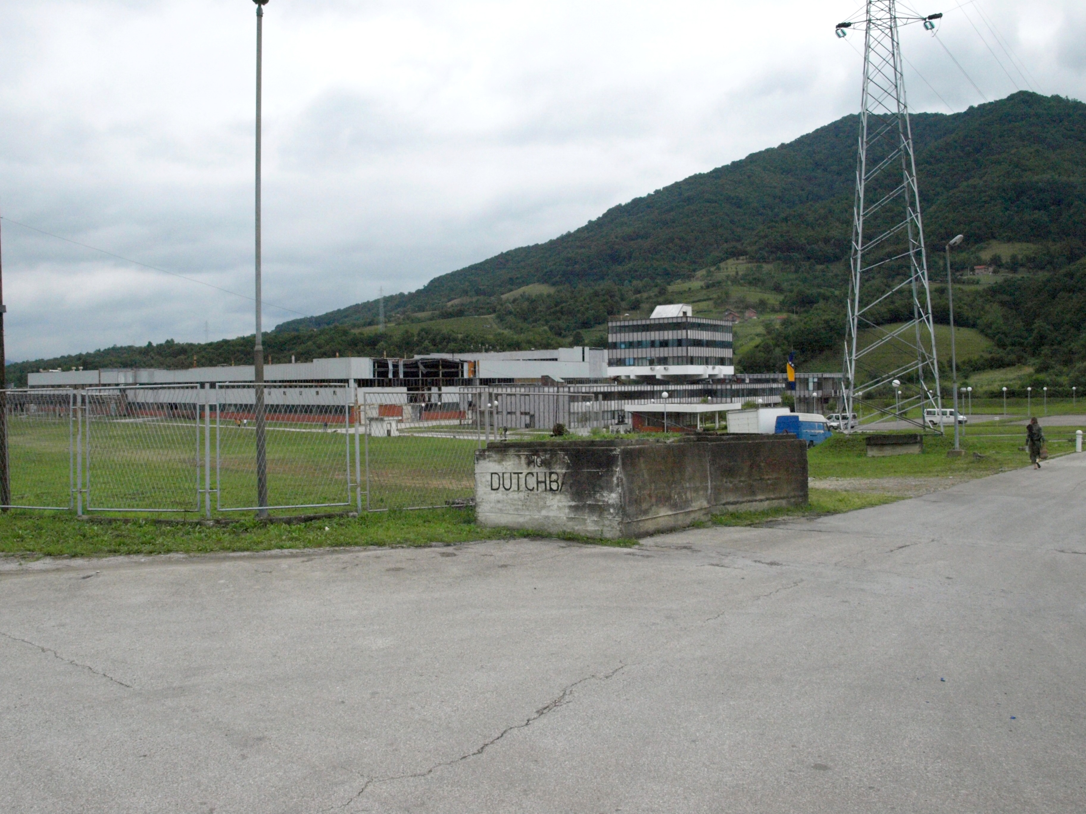 Compound of the former Dutch battalion ("Dutchbat") headquarters near Srebrenica/Potočari in Bosnia and Herzegovina